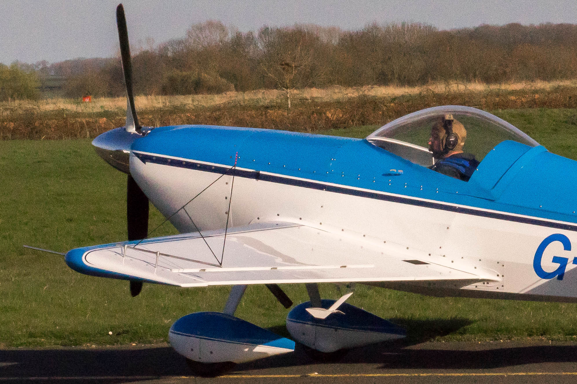 Rihn DR-107 One Design